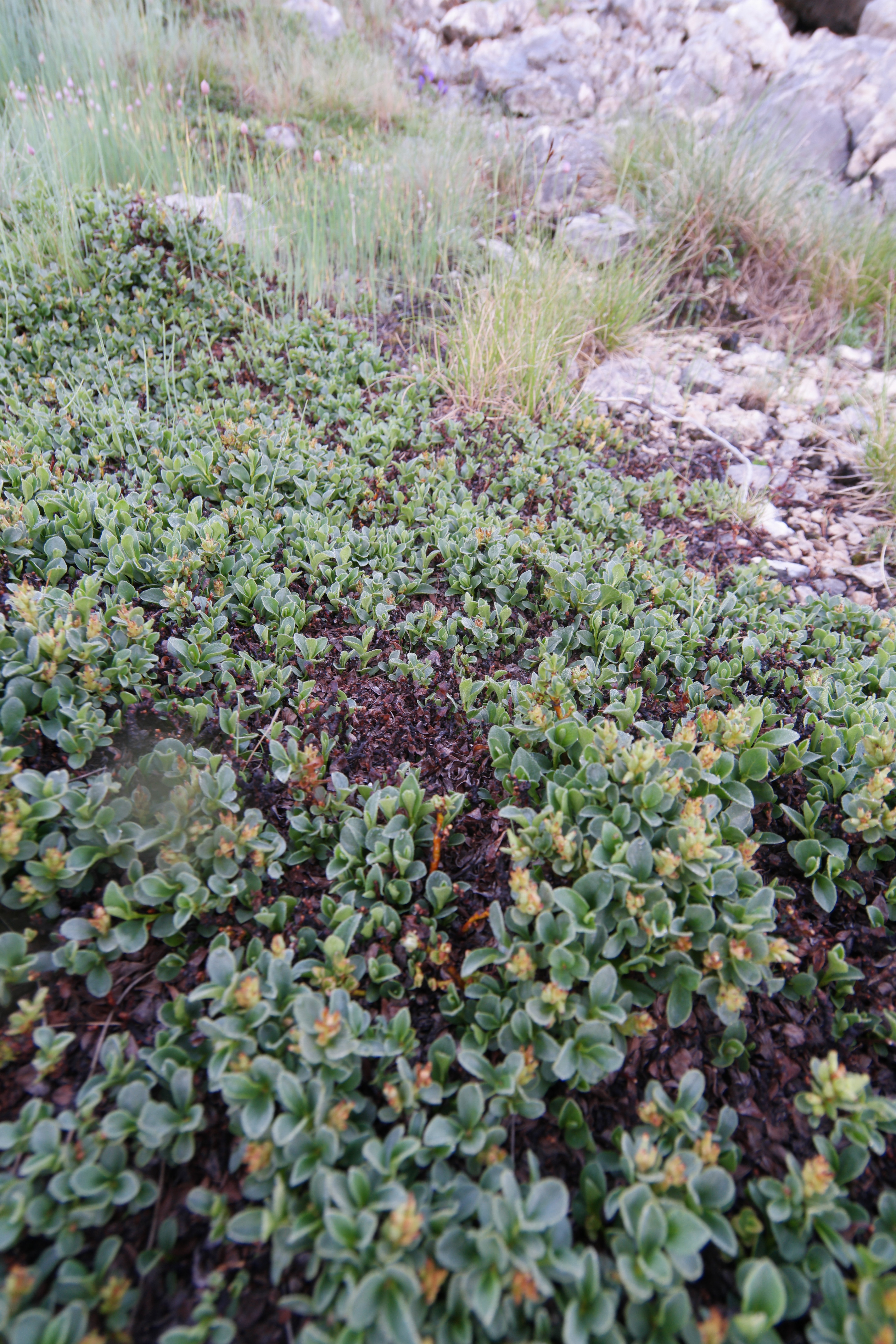 Snowbed community Salicion retusae with Salix retusa Scabiosa silenifolia and Edraianthus serpyllifolius Mt Orjen Opuvani do at 1580 m a.s.l. leg P.Cikovac